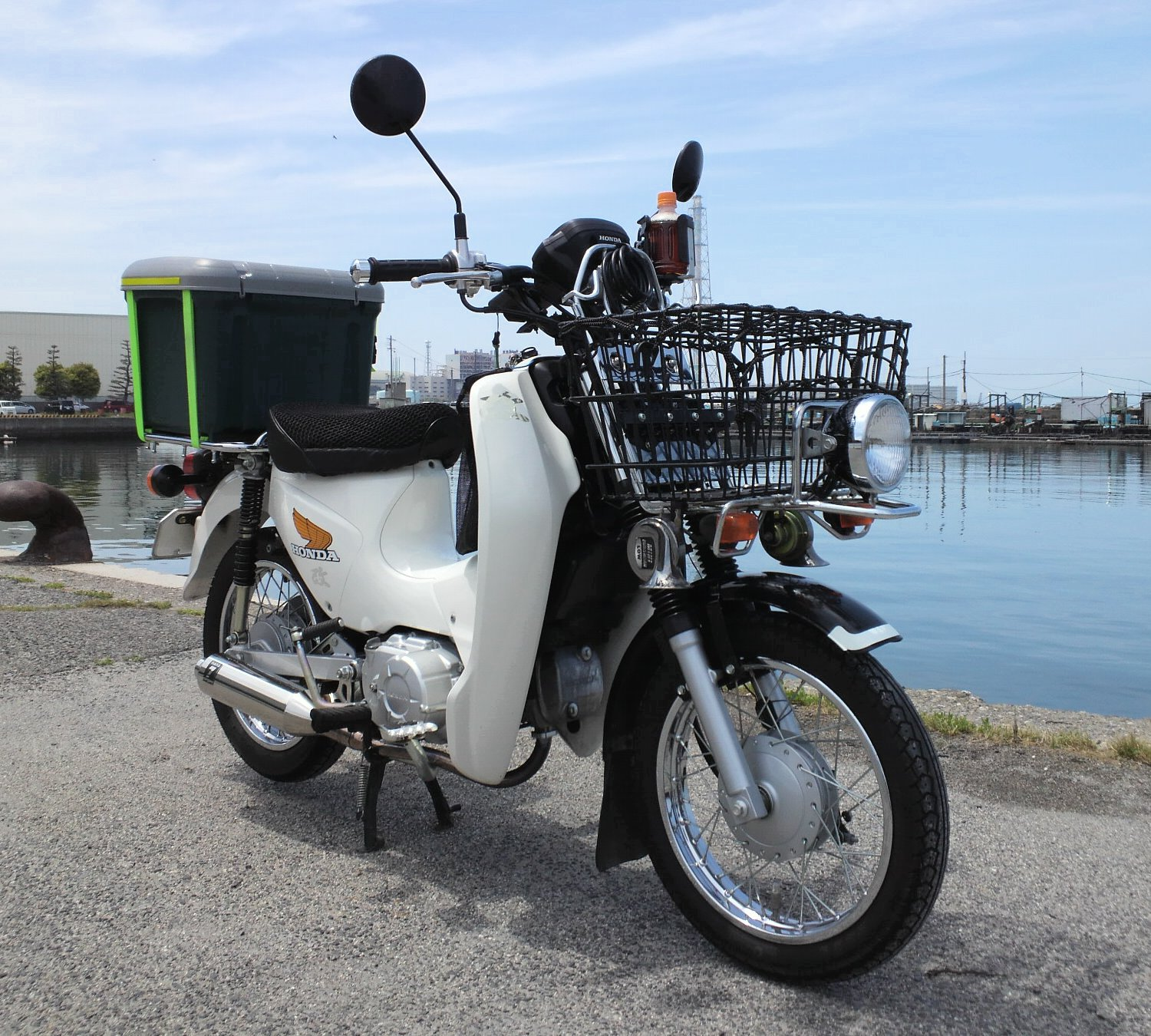 HONDA Super Cub110pro (EBJ-JA07)